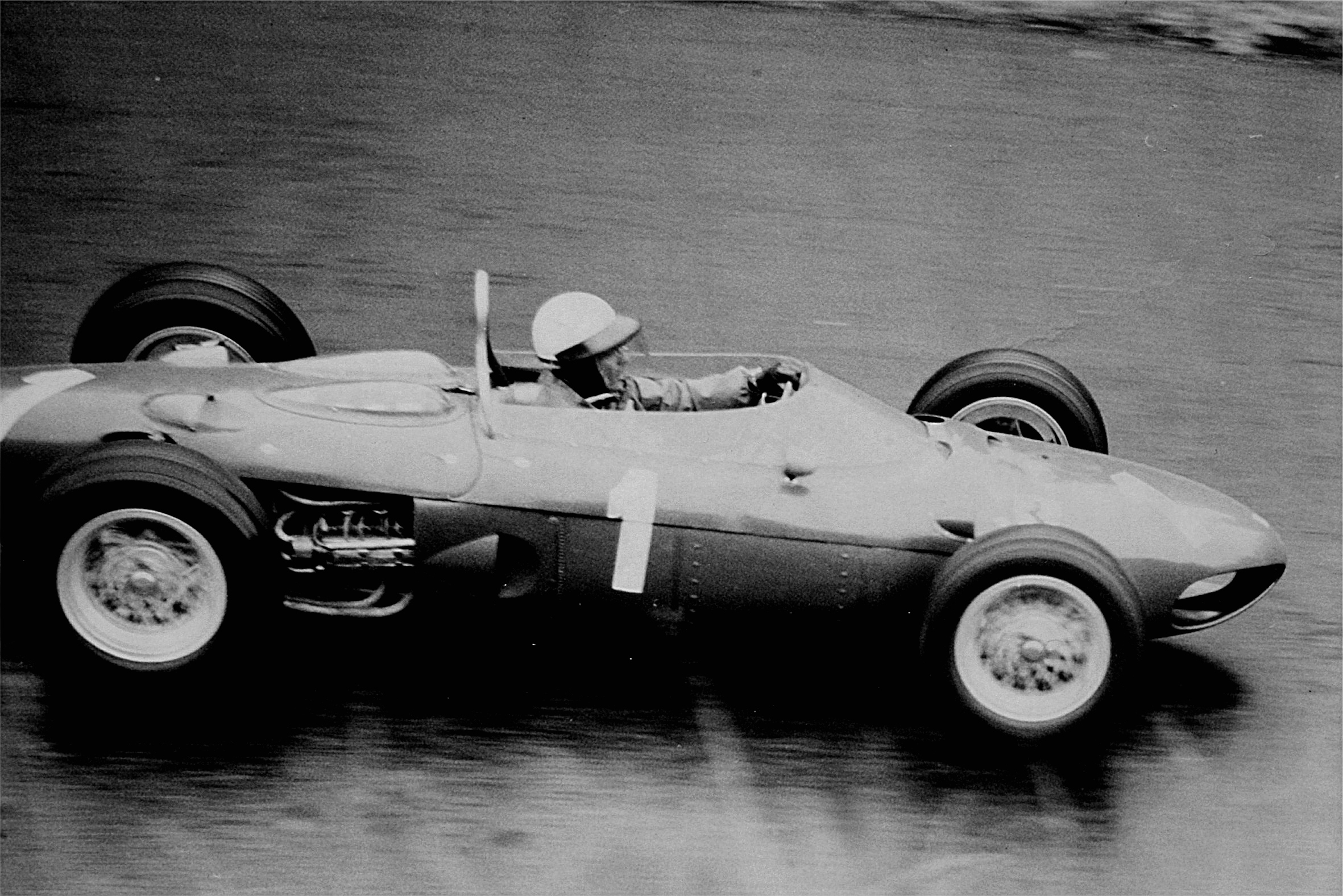 Phil Hill driving a Ferrari 156 F1 1962 at the Nürburgring, Hatzenbach